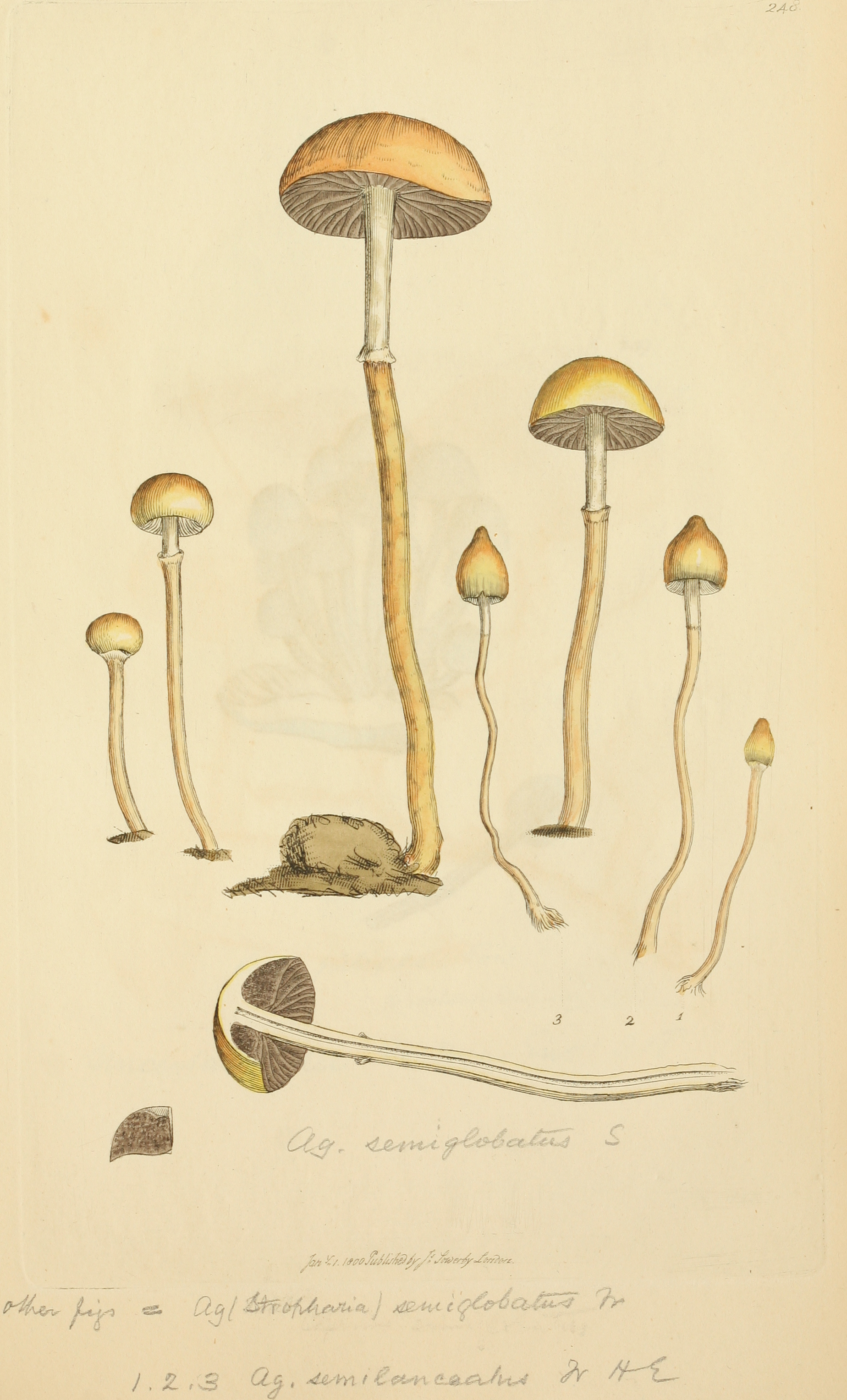 This is a plate from James Sowerby's Coloured Figures of English Fungi or Mushrooms.